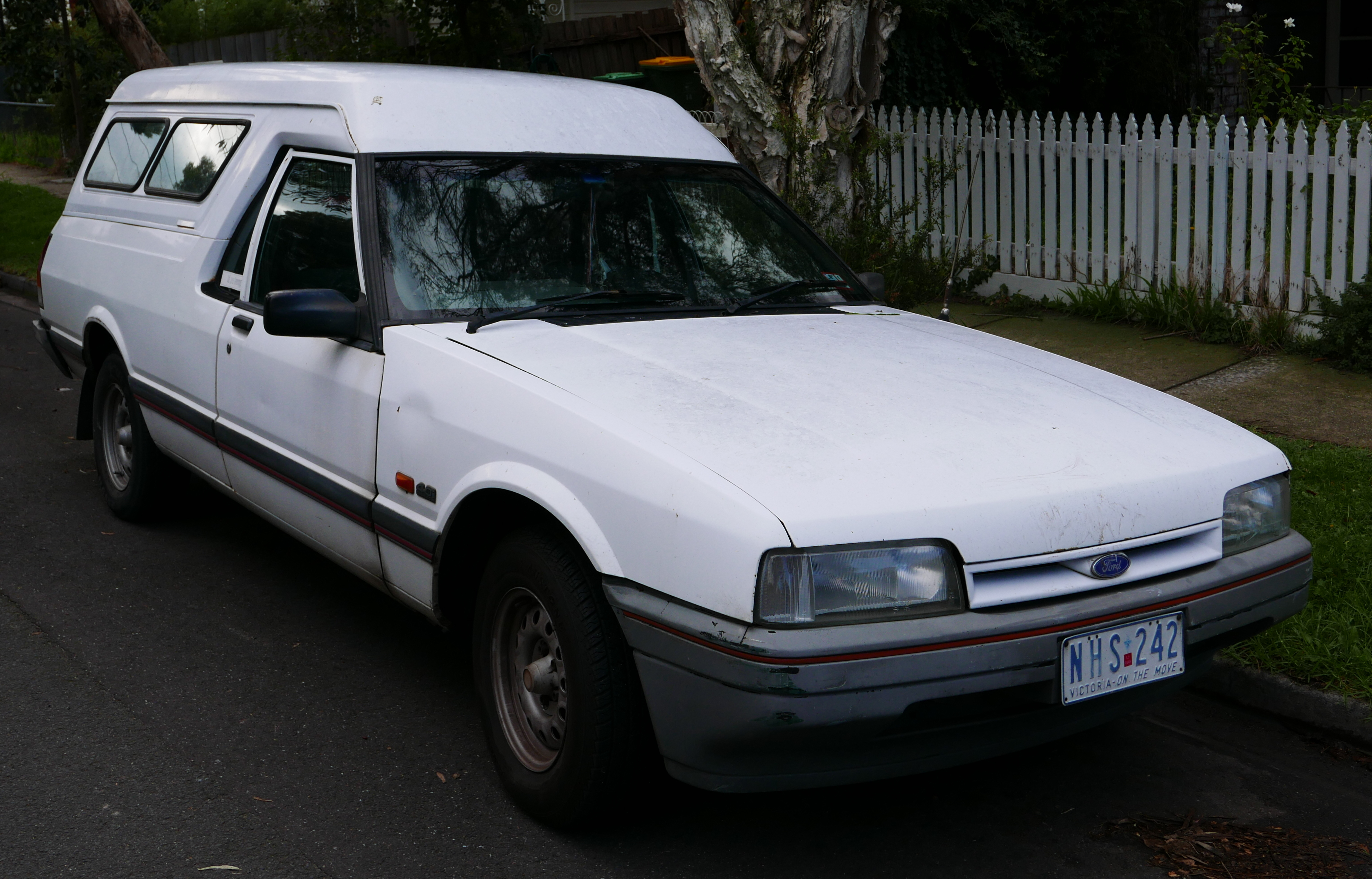 1995 Ford Falcon (XG) Longreach GLi panel van. Photographed in Northcote, Victoria, Australia. Vehicle registration enquiry results Jurisdiction Victoria Registration NHS242 Chassis code 6FPAAAJLCMSE23834 Engine code JLCMSE23834 Compliance date 1995-04 Year of manufacture 1995